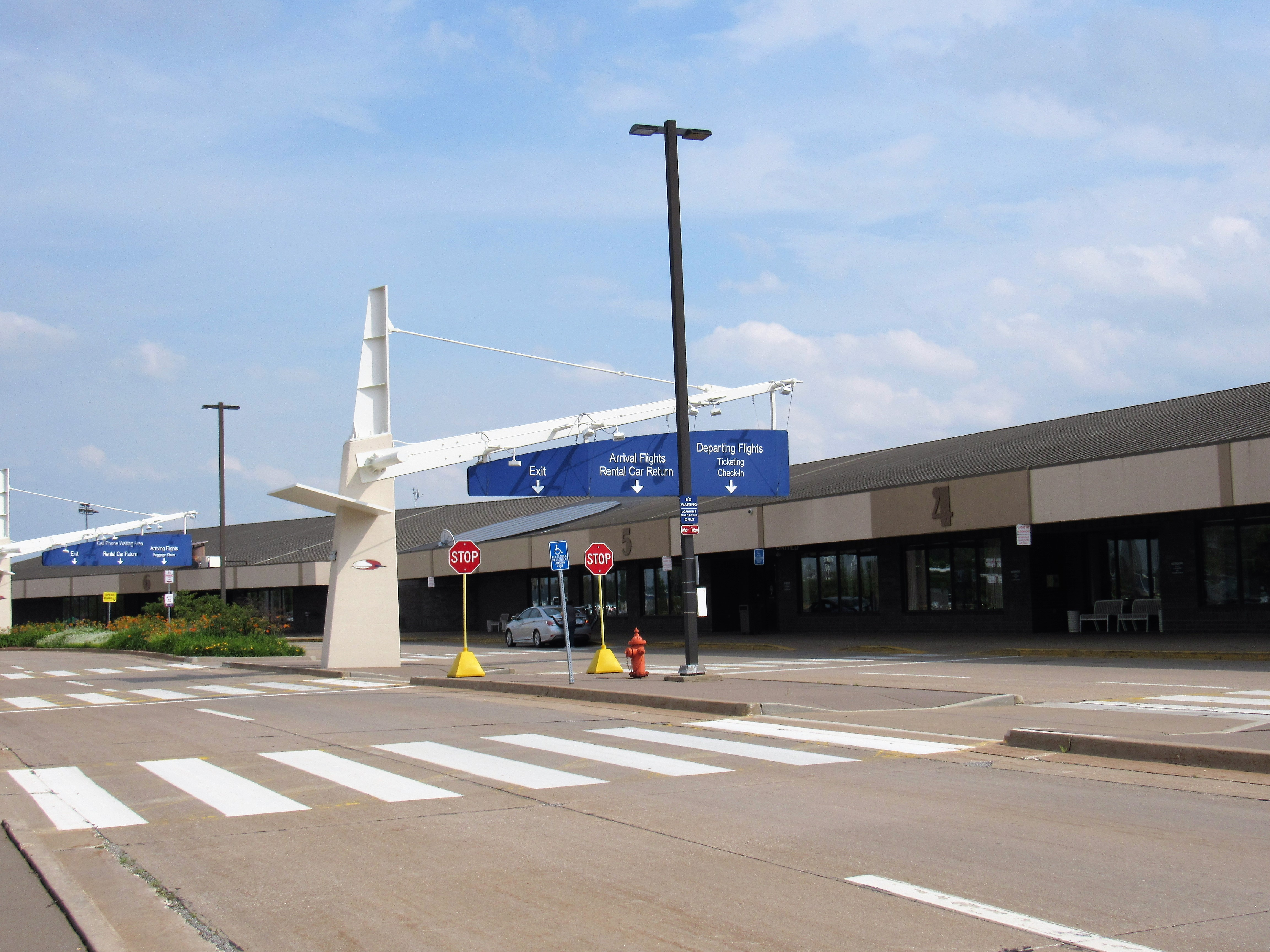 Quad City International Airport in Moline, Illinois.